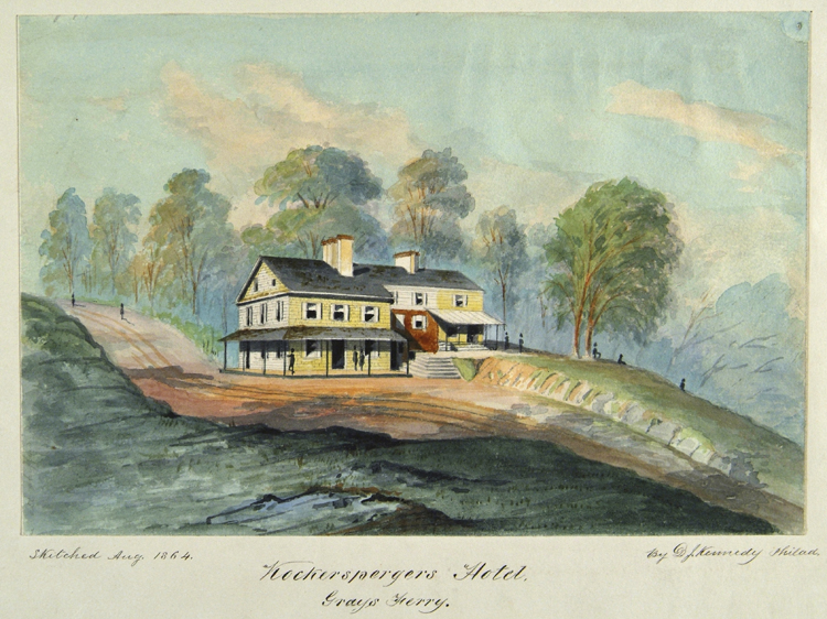 An August 1864 acquarell by David J. Kennedy shows Kochersperger's Hotel, also known as Sans Souci and Gray's Ferry Inn, on Darby Road on the west bank of the Schuylkill River near Gray's Ferry Bridge in present-day West Philadelphia. Painting held by the Pennsylvania Historical Society in Philadelphia, posted at